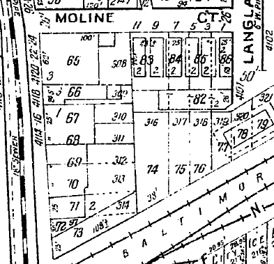 Sanborn map of the present-day Hoffner Historic District in the Northside neighborhood of Cincinnati, Ohio, United States. Located at approximately 39°9'40"N, 84°32'22"W, the historic district is listed on the National Register of Historic Places.